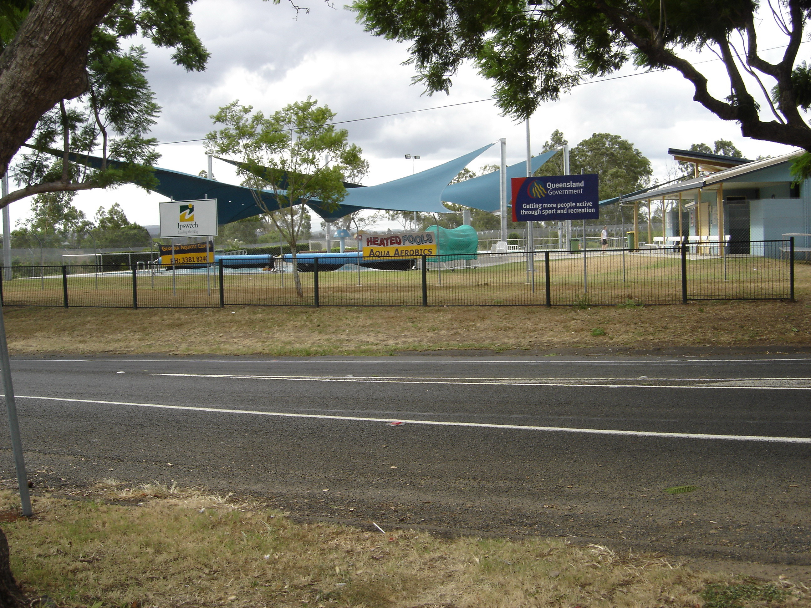 Goodna Aquatic Centre Side Picture. Author -"Goodstone".